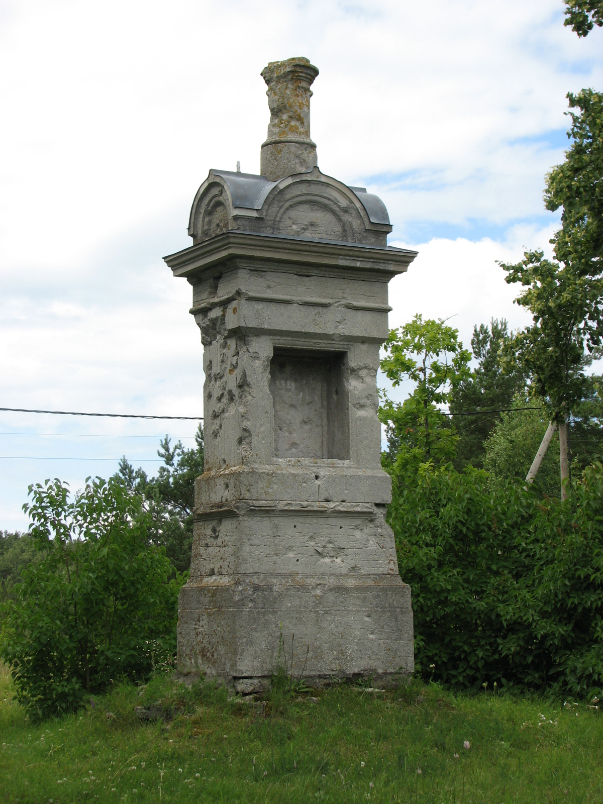 Statue dedicated to the Russian Emperor Alexander III. Pullapää, Haapsalu, Estonia. Put up in 25. January 1896.